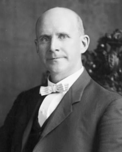 Photograph of Eugene Victor Debs.